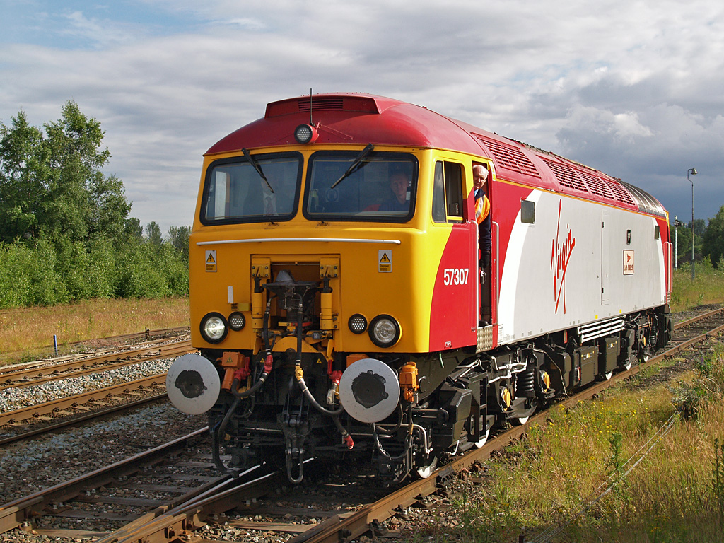 Virgin Trains (leased from Porterbrook Leasing Company Limited) Brush Traction rebuilt former British Railways Brush Type 4 Co-Co class 57/3 diesel-electric locomotive number 57307 LADY PENELOPE of Manchester Train Care Centre runs off the Up & Down Through Siding onto the Down Goods Loop at Castleton East Junction running the 17:40 (Additional) Heywood Ground Frame to Longsight CMD (0T58) with West Coast Railways traction inspector Albert Seymour about to hand back the signal line staff for the Up & Down Goods line. Wednesday 2nd July 2008